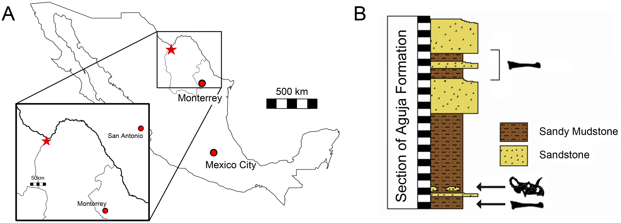 Stratigraphic column of CPC 274- CPC 274 was collected in a section mapped as the Aguja Formation. Unfortunately it was not possible to correlate this section to a section that had either contact with the overlying or underlying formations. CPC 274 is represented by the Centrosaurus skull. The two hadrosaur tibiae found at the site are represented as tibiae. 1 box = 1 meter.